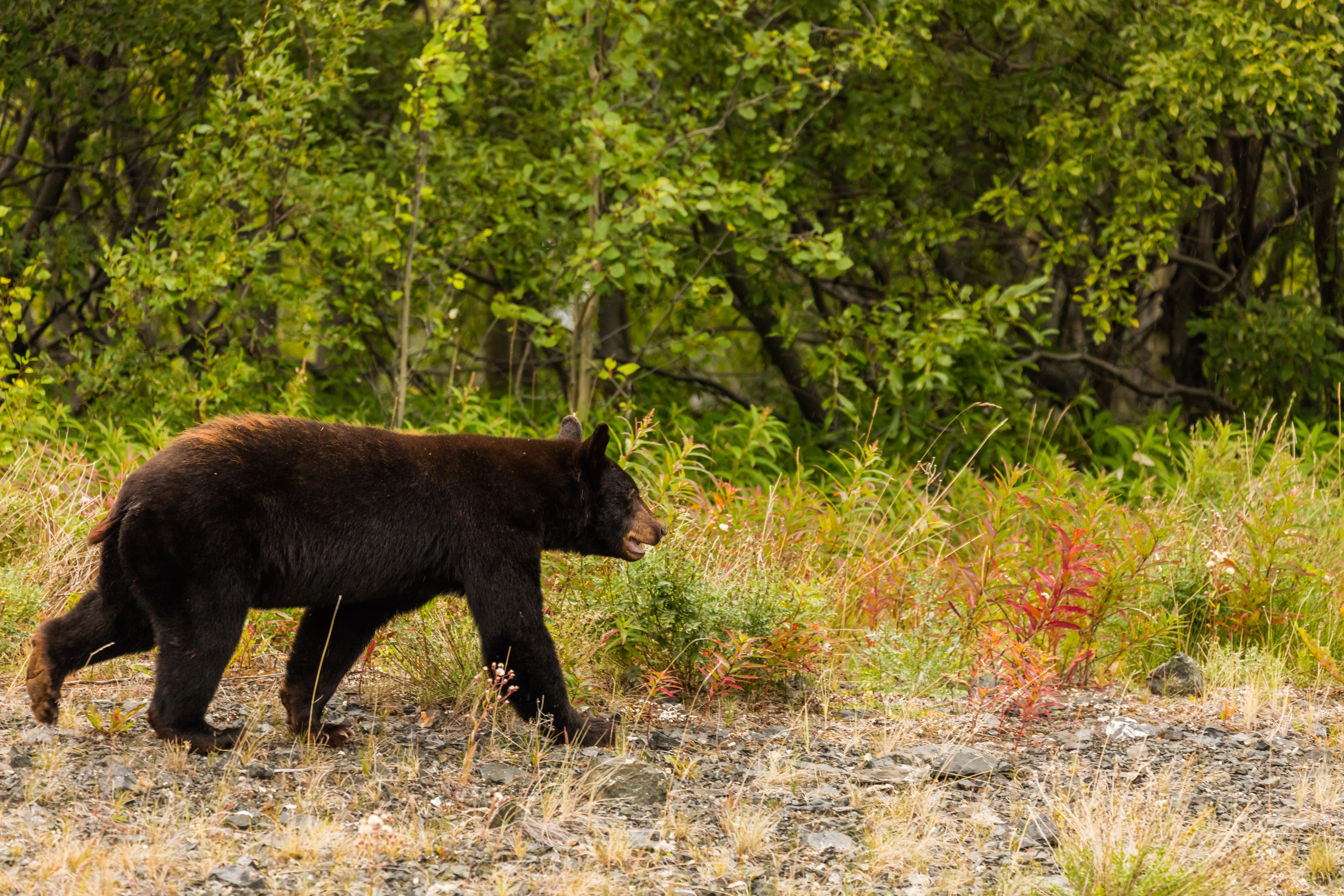 Black Bear (Ursus americanus), Tatshenshini-Alsek Provincial National Park, Yukon, Canada